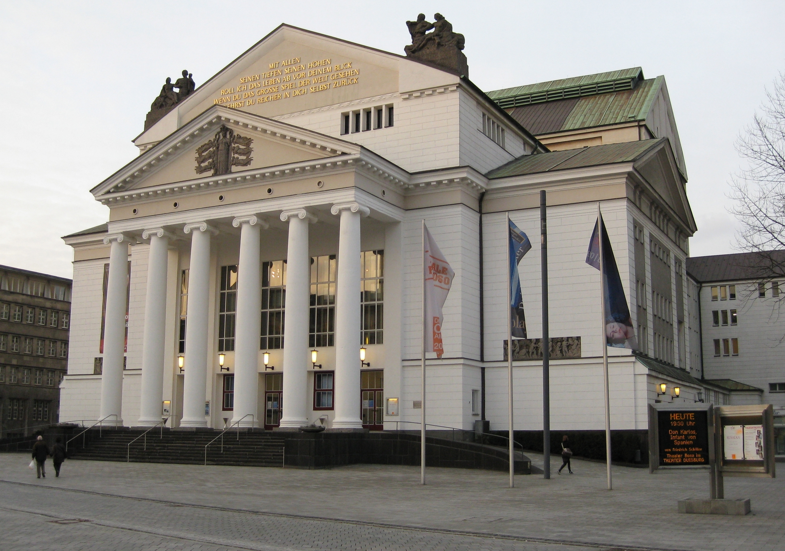 Germany, Duisburg: building for opera and theater (also "Deutsche Oper am Rhein"